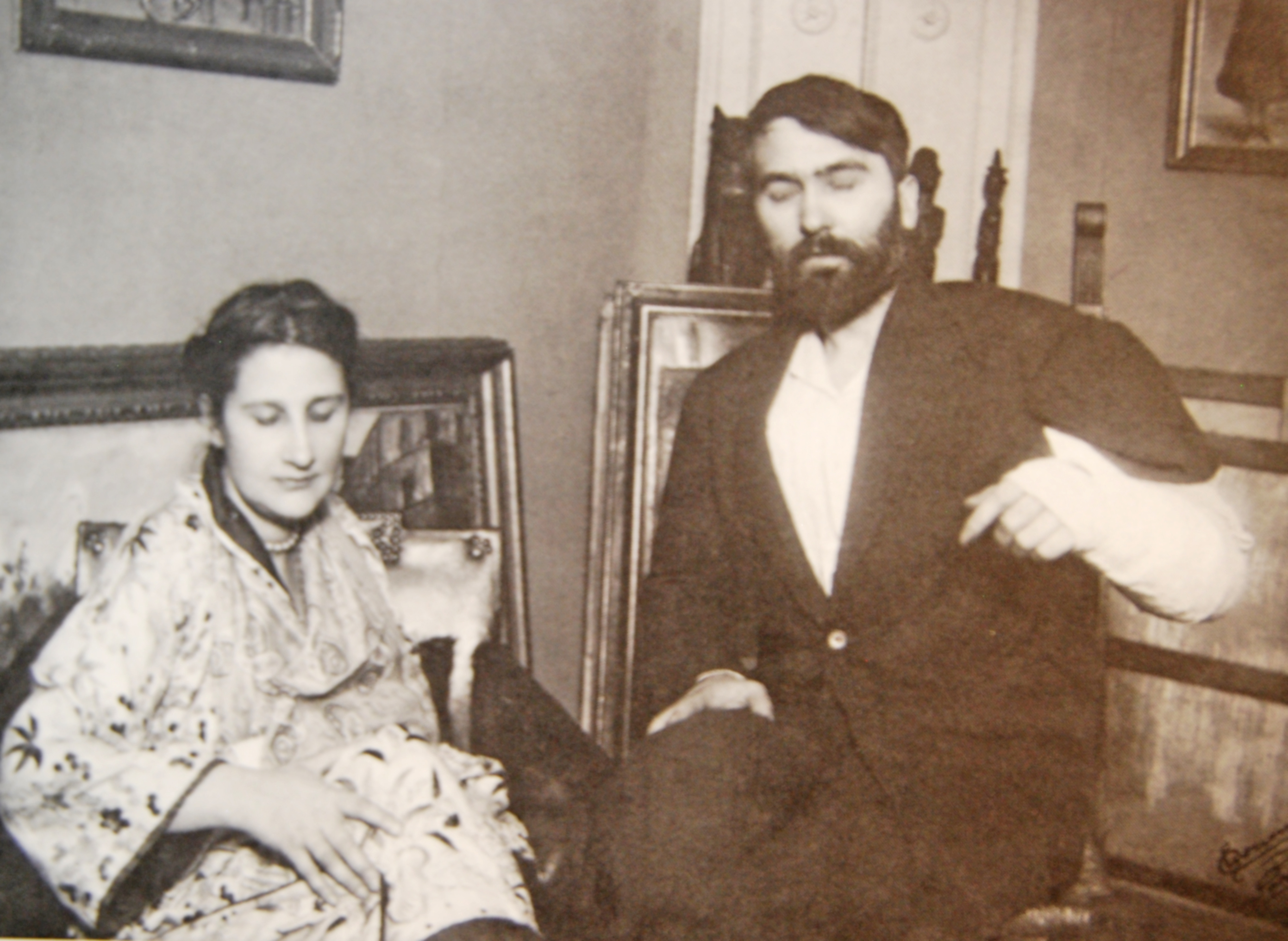 Hanka and Leopold Zborowski, dealers of Amedeo Modigliani , image from the apartment placed in Rue Joseph Bara nº3 in paris, picture from 1919.